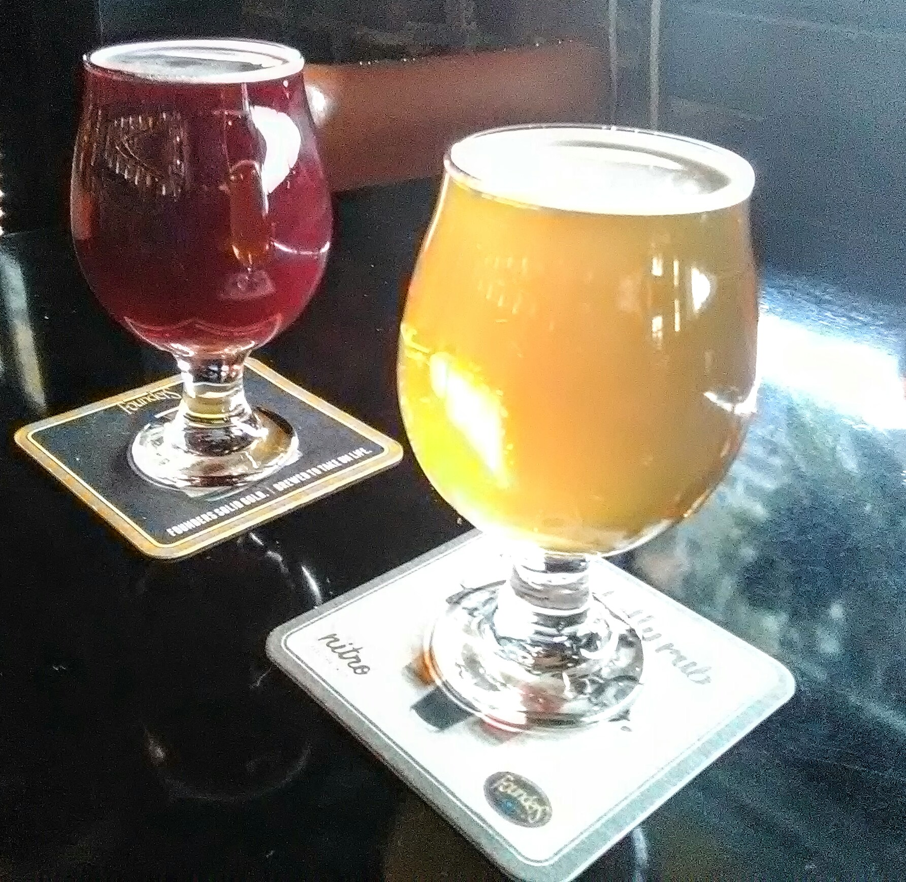 Two varieties of fruit lambic. Raspberry on the left, peach on the right. Both in snifters.